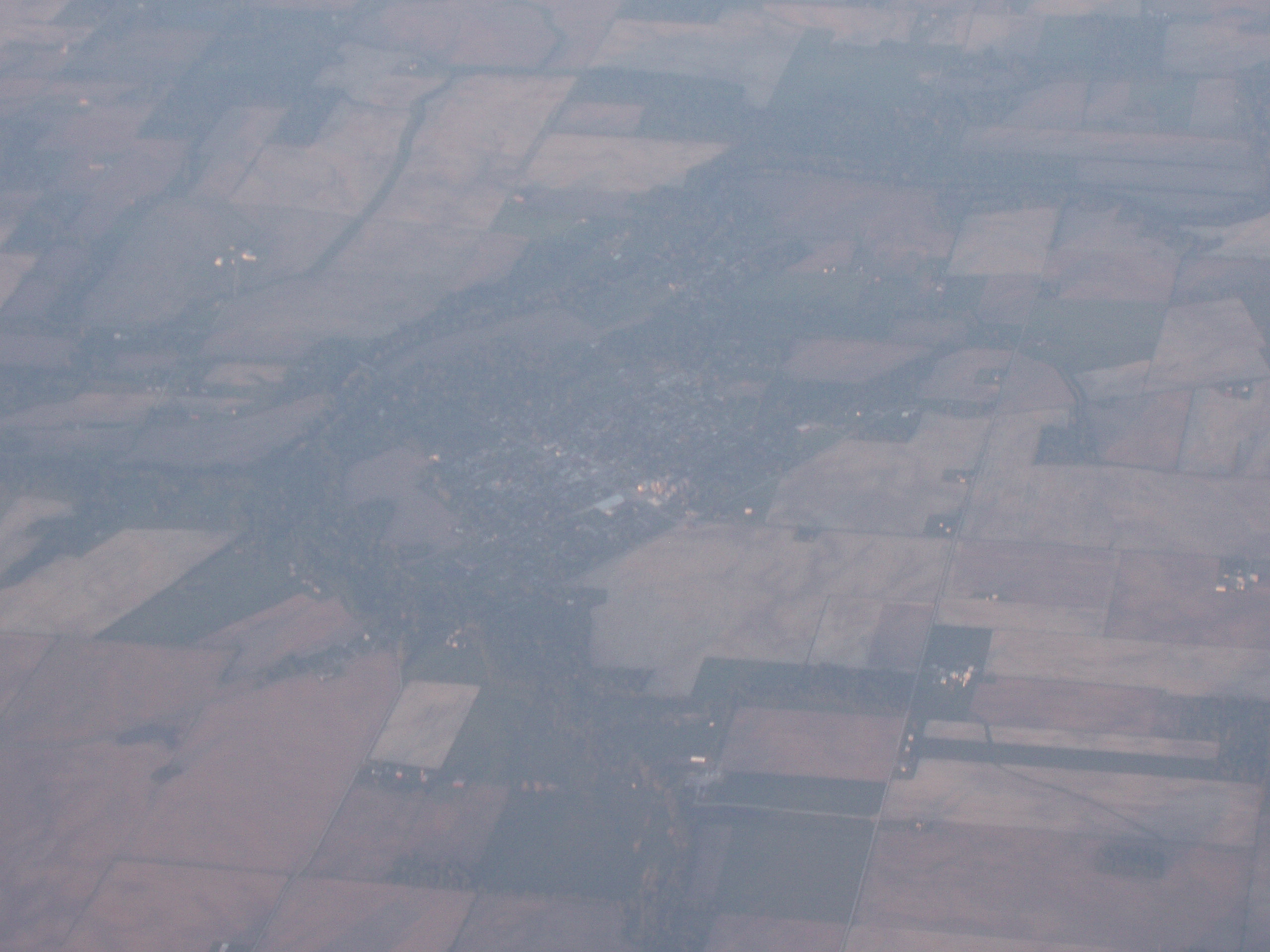 Example of aerial photography through a heavy haze, taken from a commercial jet at about 25,000 feet at about 7:35 PM. The subject is Matthews, Indiana. :A post-processing version is available as Matthews-indiana-from-above.jpg. :An example of a light-haze aerial photograph is available as aerial-photo-light-haze.jpg.